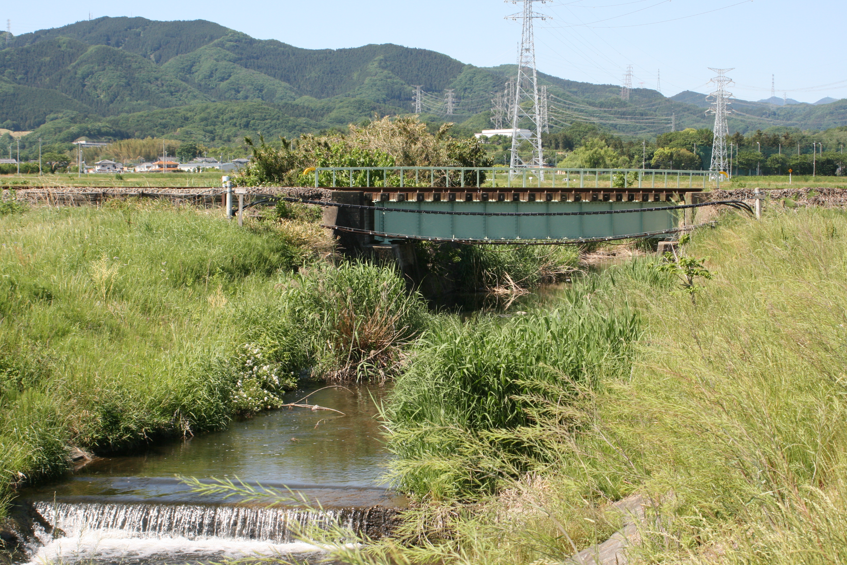 Shidogawa bridge of JR East Hachiko-line